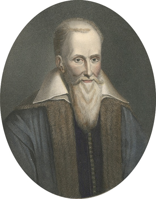 Joseph Scaliger, from a print engraved by Edelink